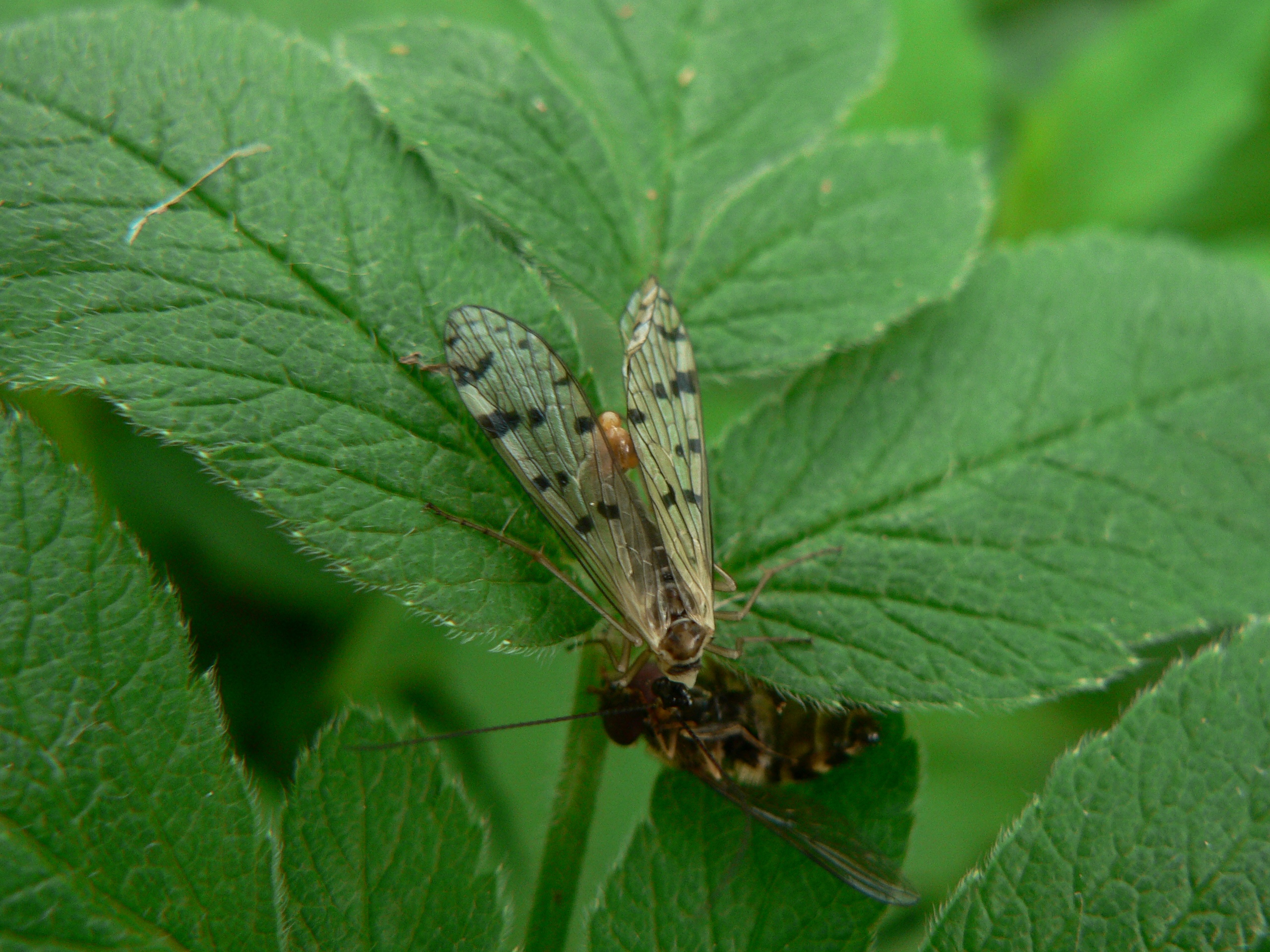 Panorpa alpina